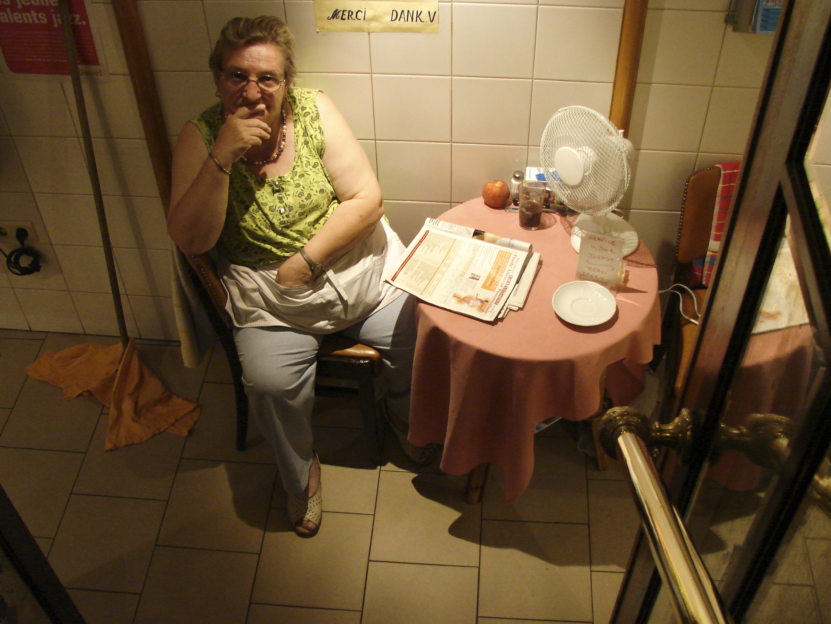 A toilet lady in Brussels, Belgium. Orginal text: from the "Brussels" set